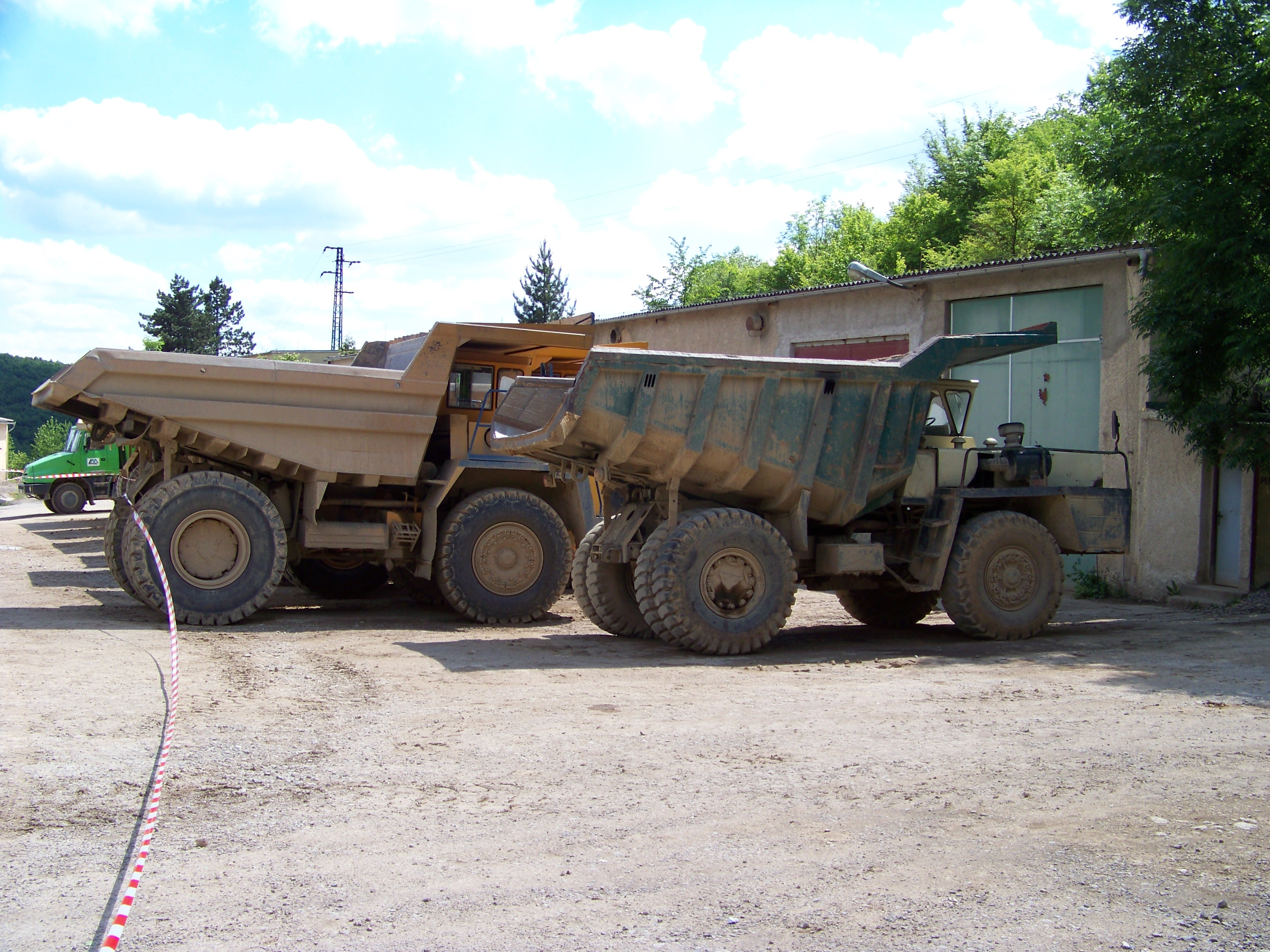 Mořina, Beroun District, Central Bohemian Region, the Czech Republic. Trucks in the quarry area.